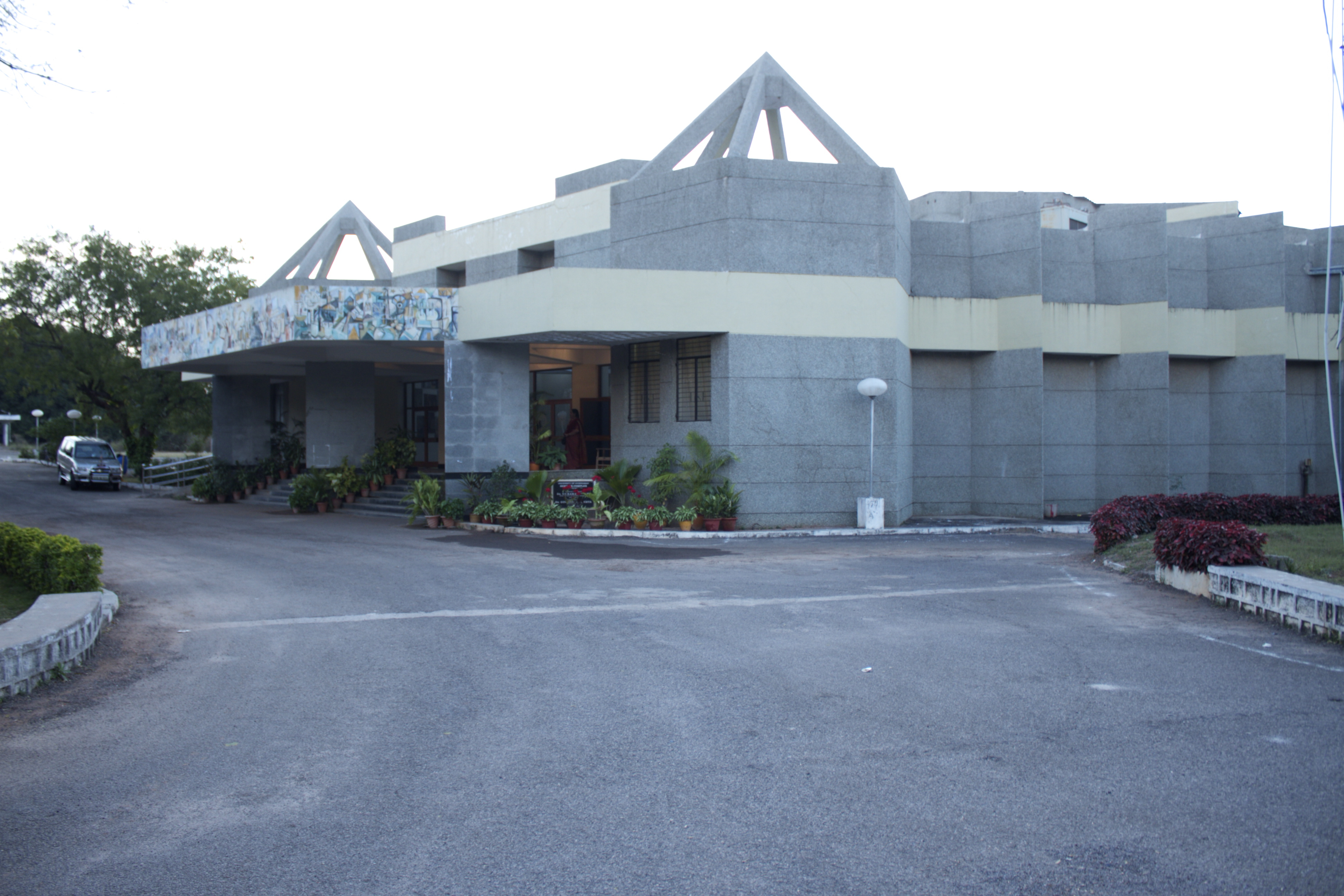 DST Auditorium